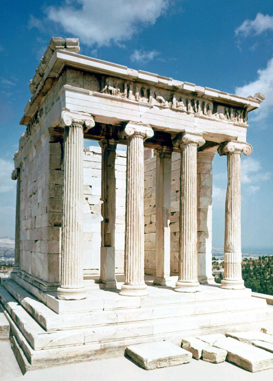 Temple of Athena Nike, Acropolis of Athens Greece. Photo taken in 1978.